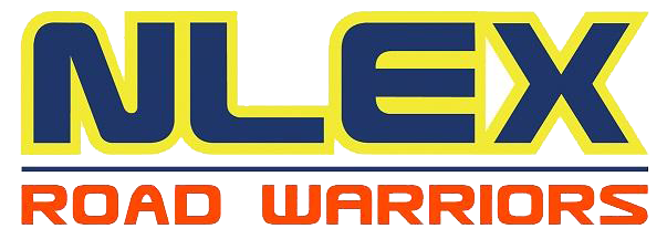 Logo of the Philippine Basketball Association team NLEX Road Warriors